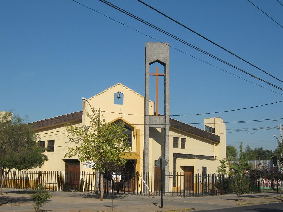 Saint Luke Church PAC-Santiago Chile